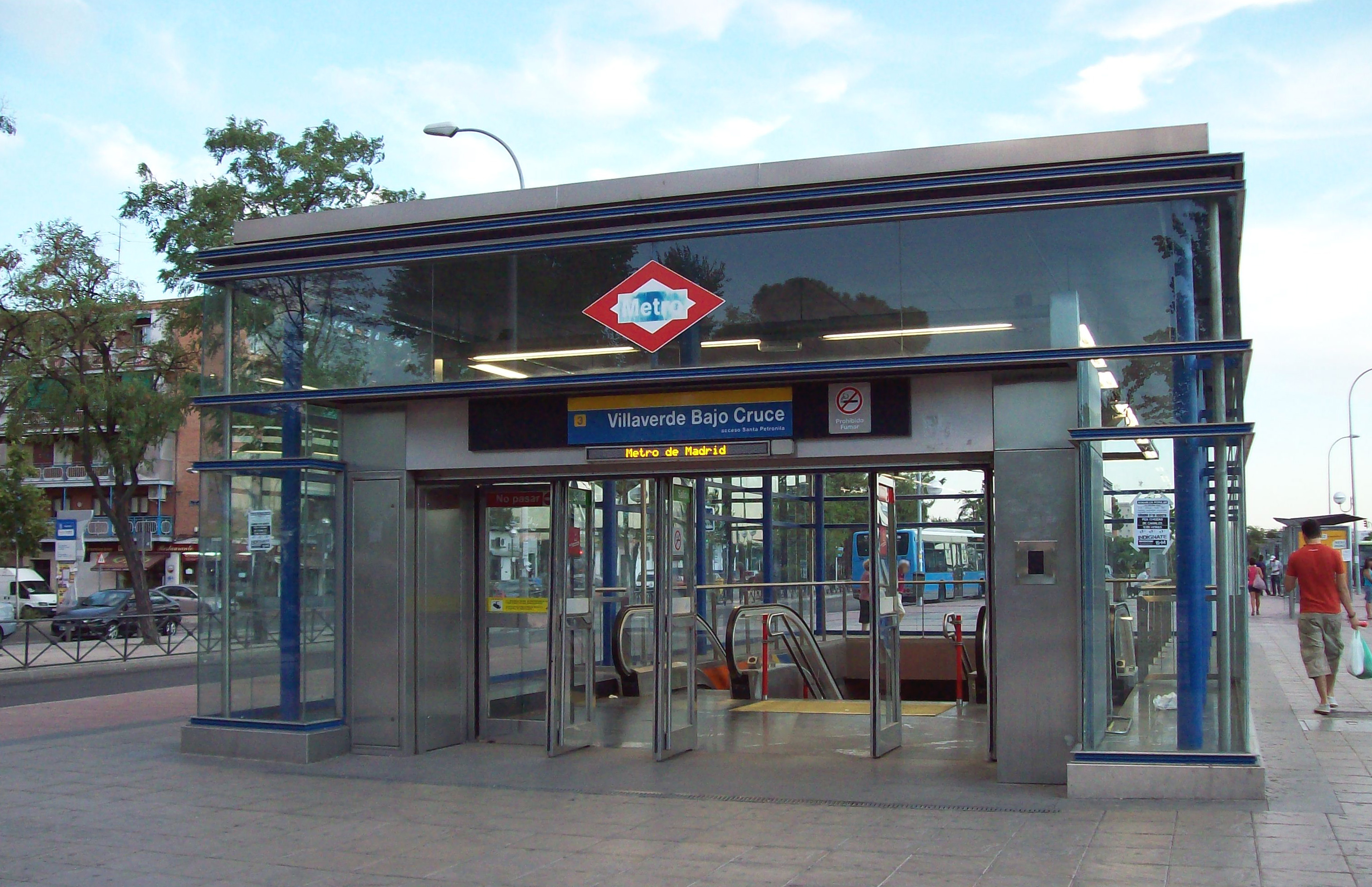 Entrance of Villaverde Bajo - Cruce metro station in Villaverde district in Madrid (Spain).